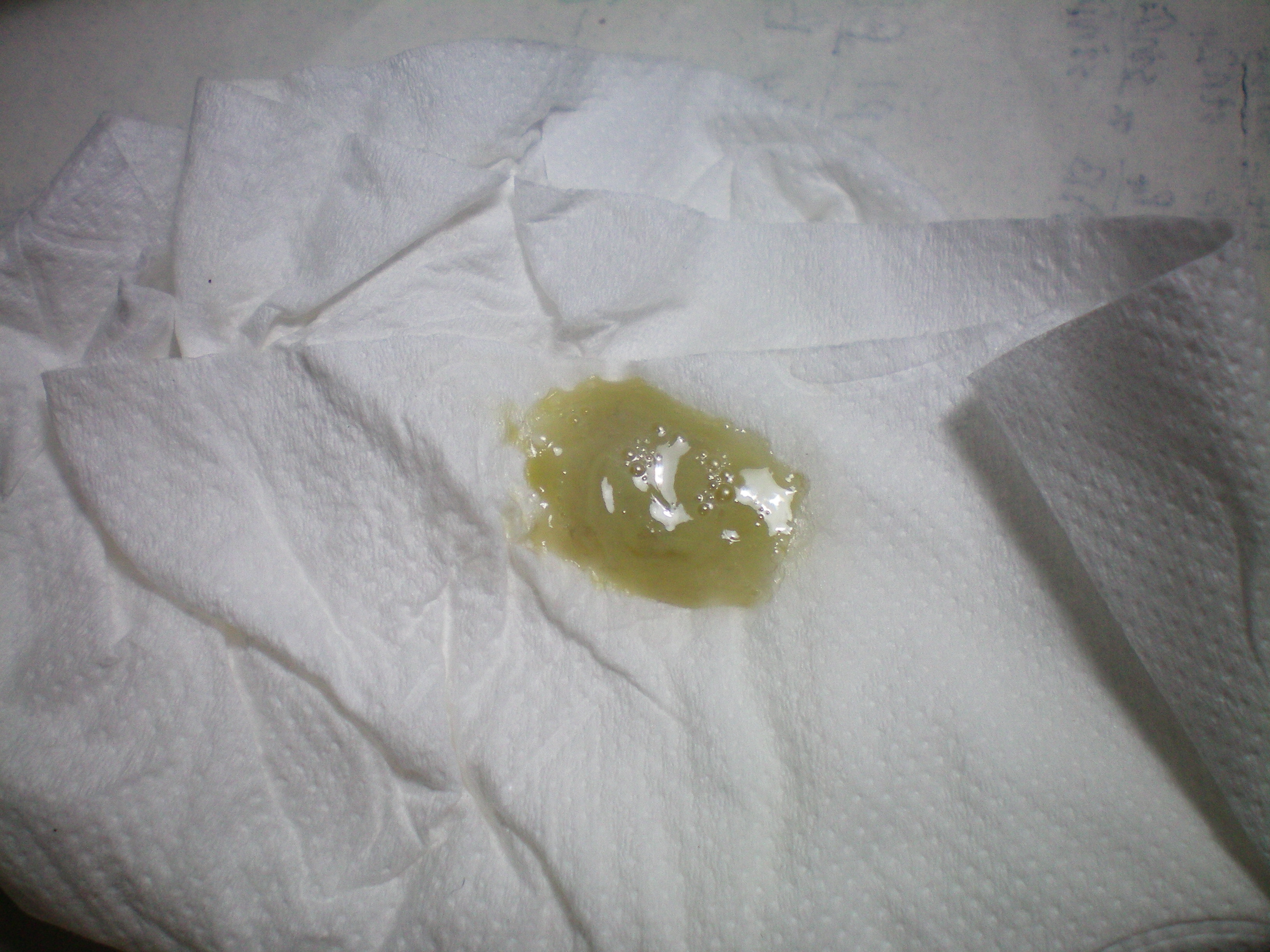 Sputum